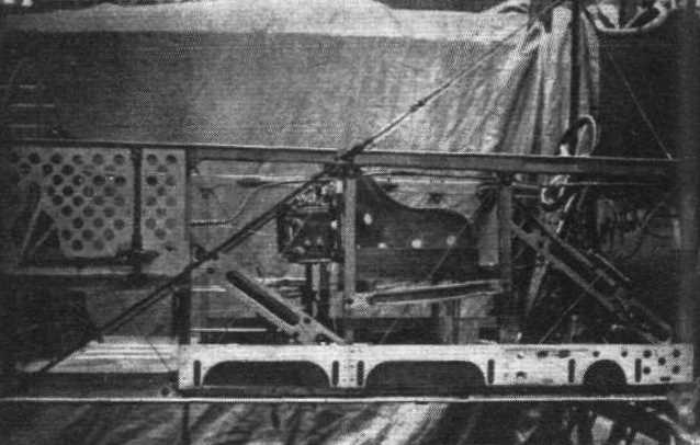 Short Type 184 fuselage structure.